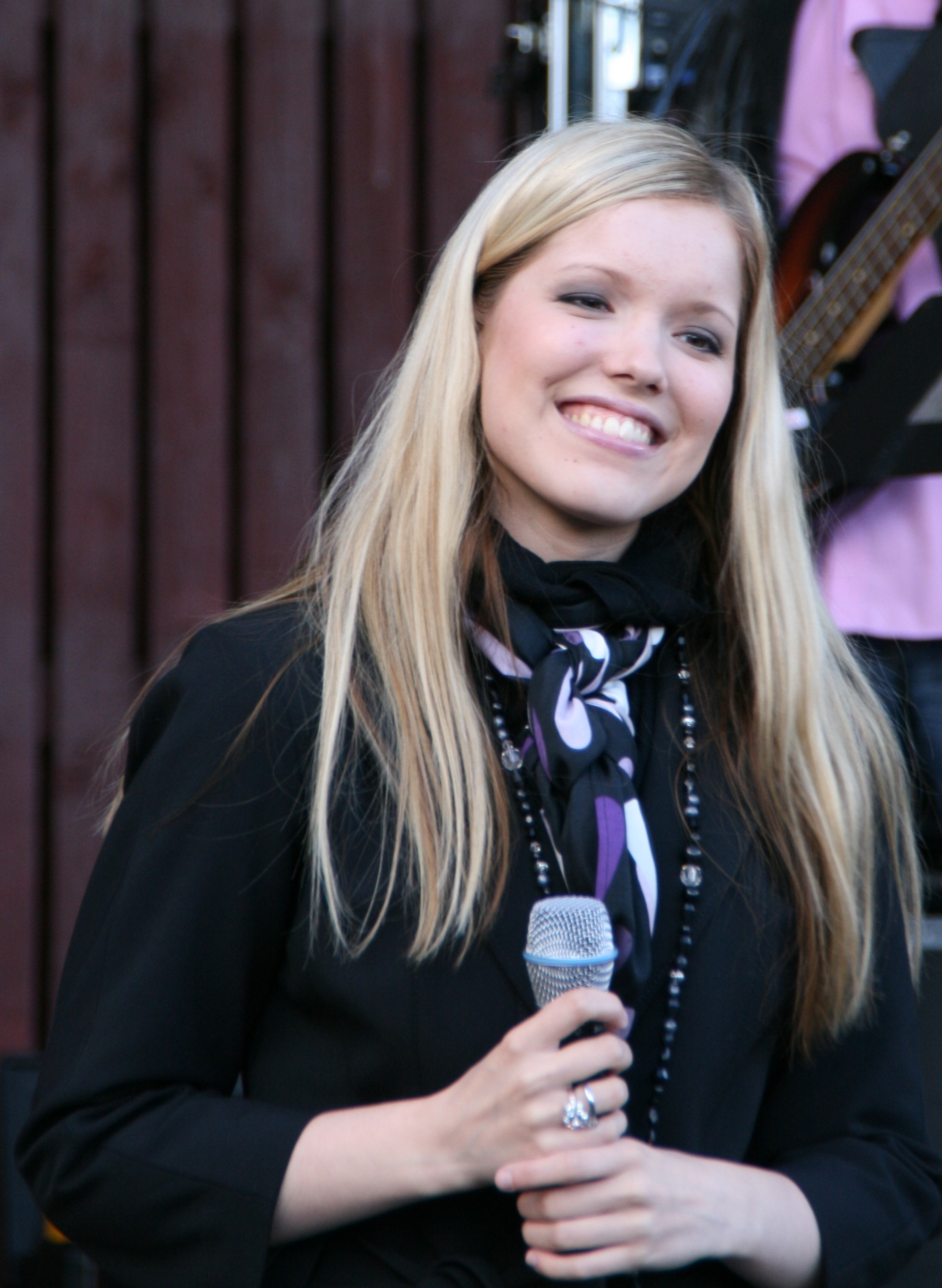 Jenna Bågeberg, Finnish singer